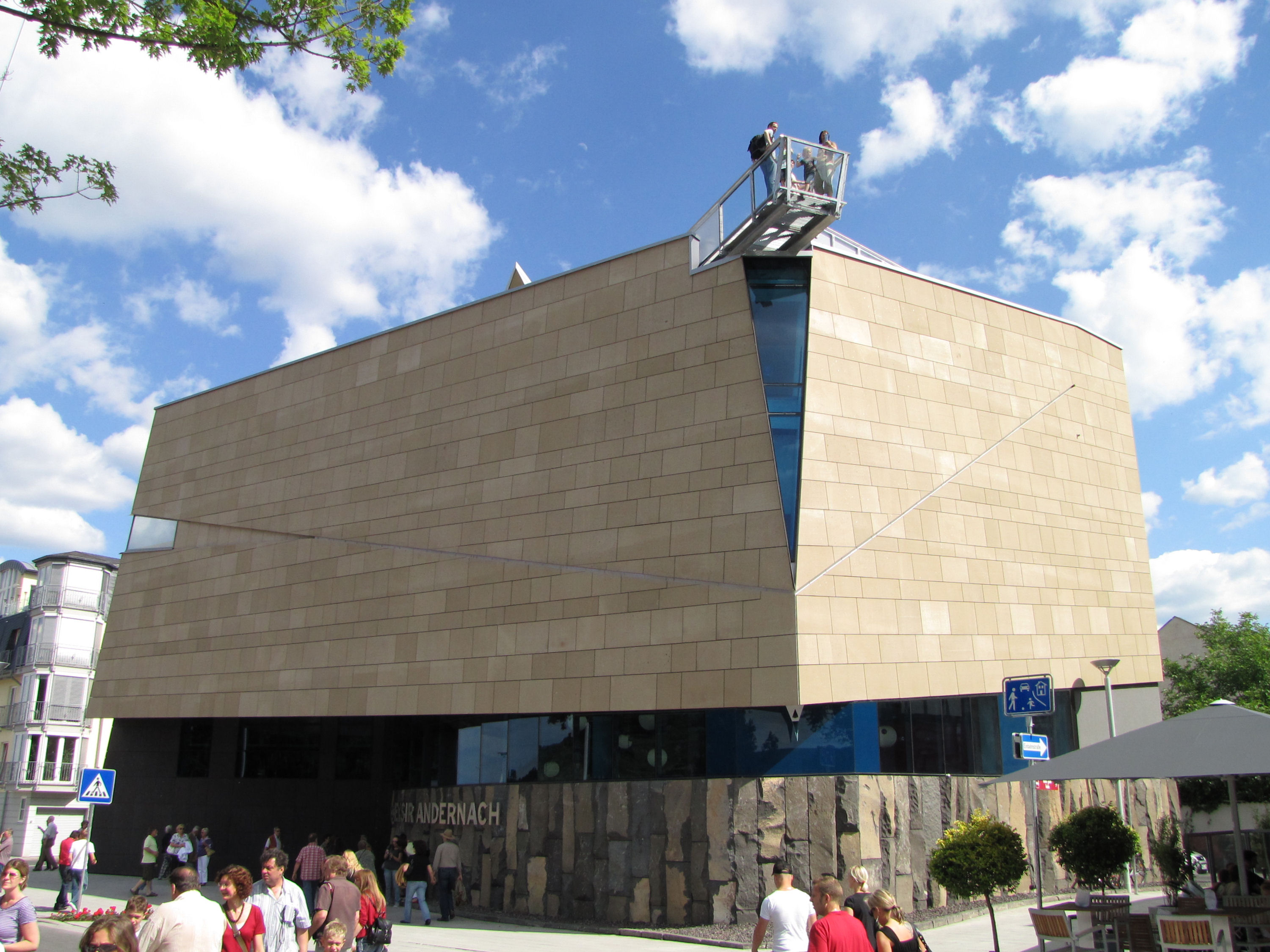 Geyser information center in Andernach